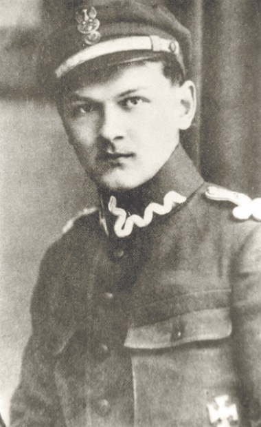 Władysław Broniewski (1897-1962)- Polish poet. Here as a soldier of Polish Legions in World War I